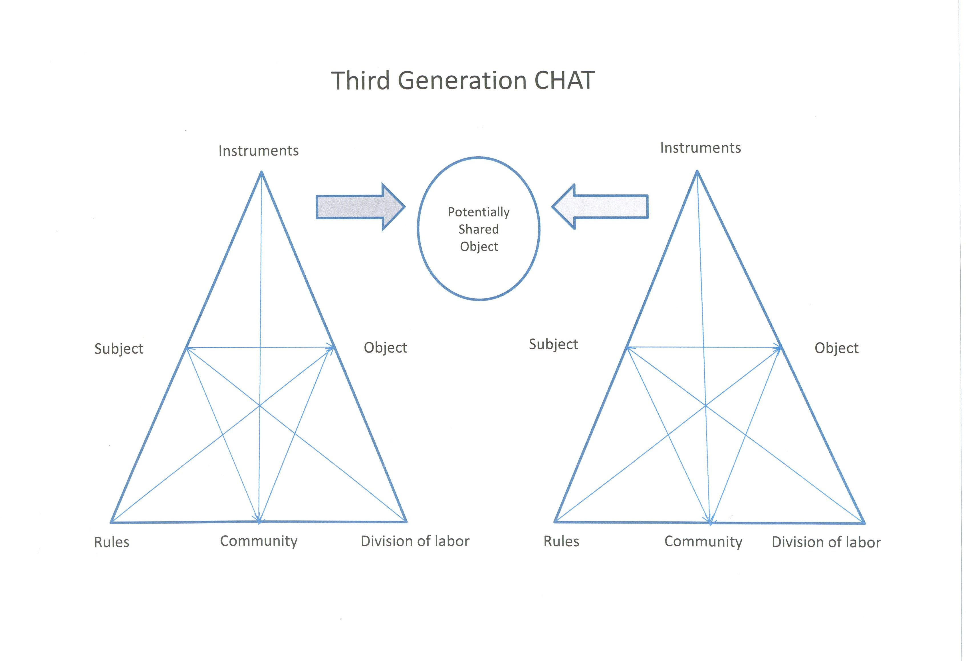 A representation of Third Generation CHAT: collective activity, mediational means, division of labor (Dialogue and multiple perspectives – Expansive Learning) - following Engeström, 1987 ( and Nygård, 2010 (